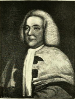 James Ferguson who was second laird of Pitfour; became Lord Pitfour when raised to the bench. Born 1700, died 1777